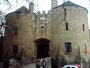 webmaster